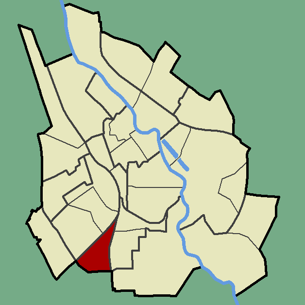 Locator map of Variku, Tartu, Estonia.